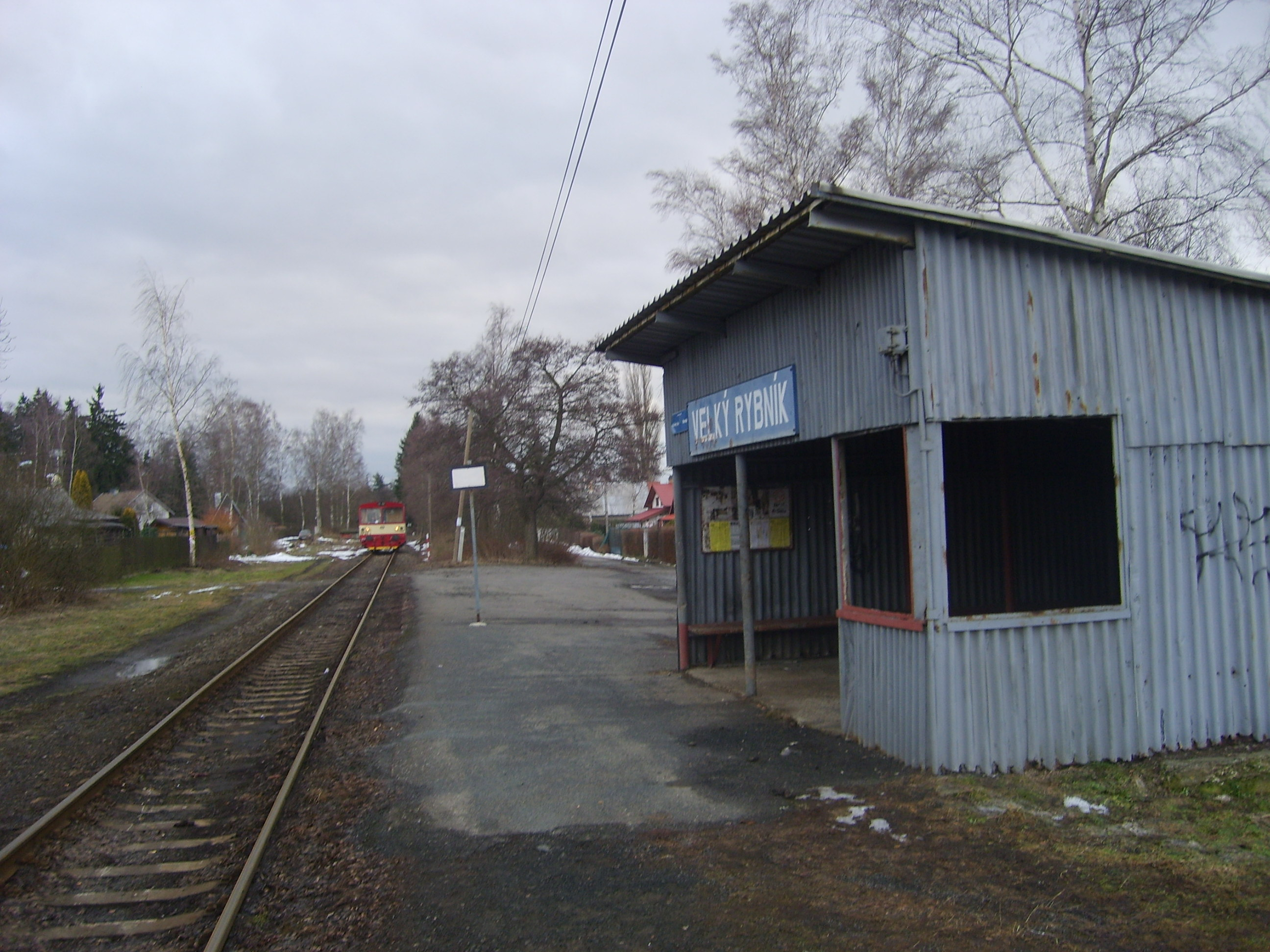 Diesel railcar 810 548-8 arriving at a train stop in Velký Rybník on a railroad line from Karlovy Vary to Merklín.